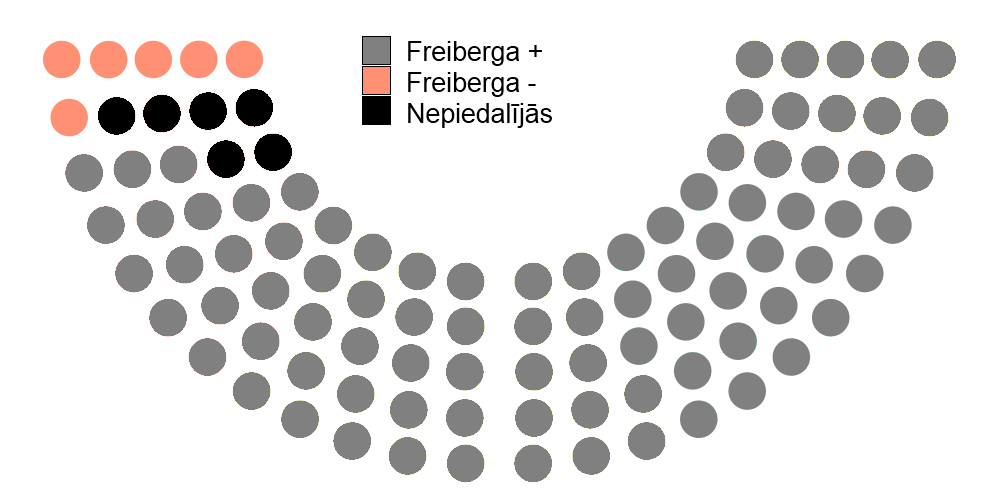 Graph showing the Saeima voting in Latvian presidential election, 2003.